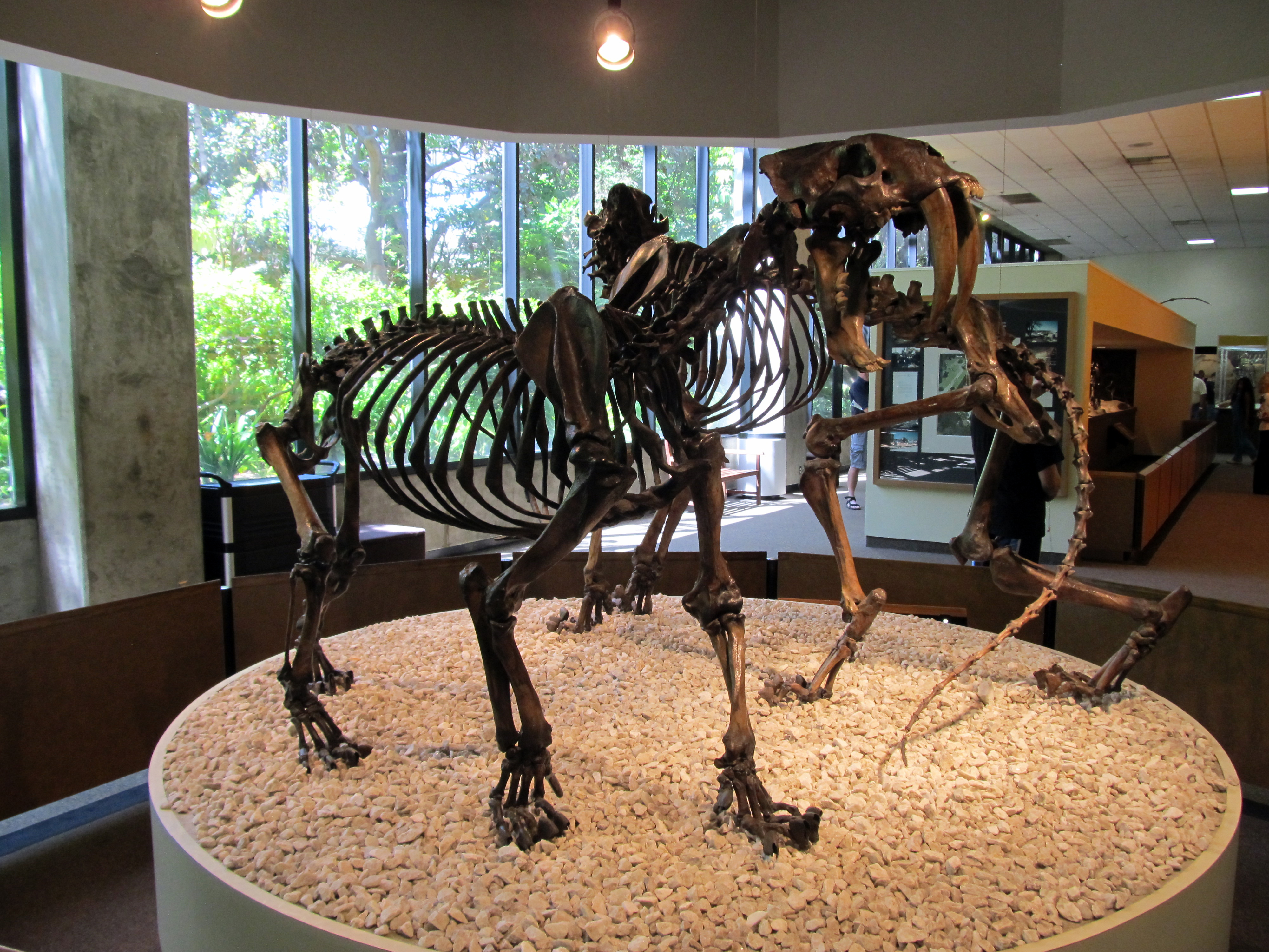 One of the more famous ancient mammals, the saber-toothed cat was about the size of today's Siberian tiger. Its large canine teeth were brittle and could not have bitten into bone. It's believed that once their prey was subdued, they used these teeth to bite their neck, severing the blood supply and strangliing the windpipe.